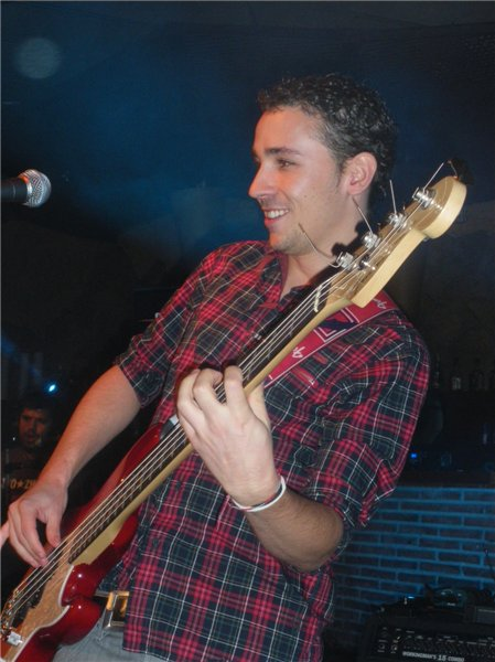 antonio suarez